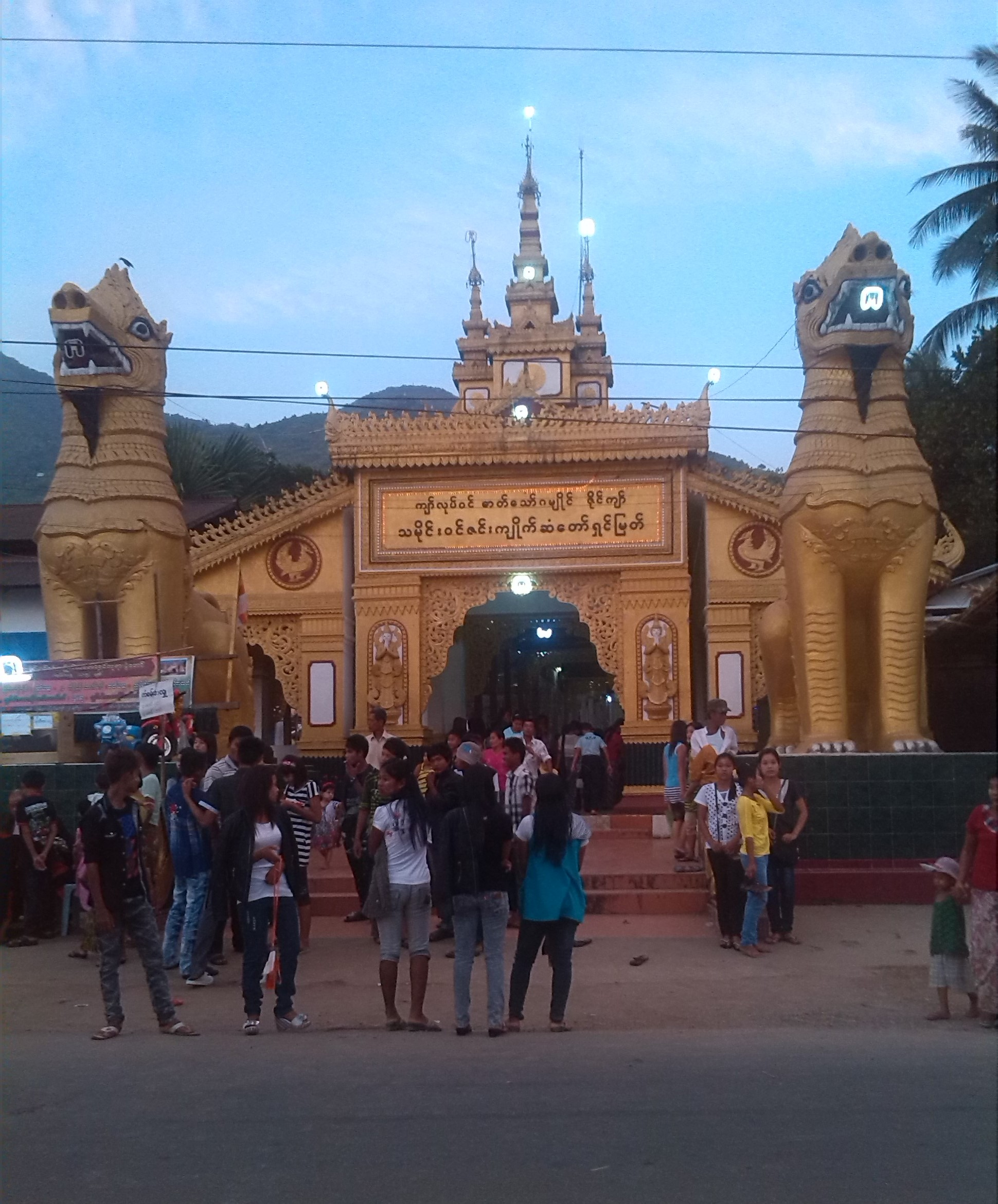 Entrance of Zin Kyaik Pagoda, Zin Kyaik, Mon State မြန်မာဘာသာ: ဇင်းကျိုက်တောင် အဝင်ဝ၊ ဇင်းကျိုက်၊ မွန်ပြည်နယ်